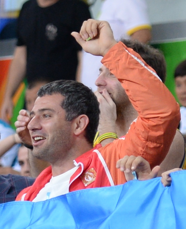 Elkhan Mammaov at the 2016 Summer Olympics, watching Safarov vs Kitadai